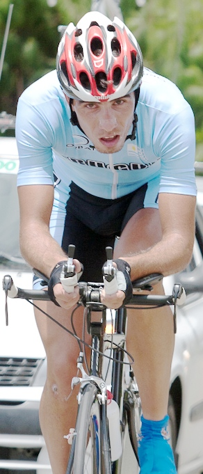 Uruguayan cyclist Mariano De Fino, in the Pan American Cycling Championships 2011 Medellín